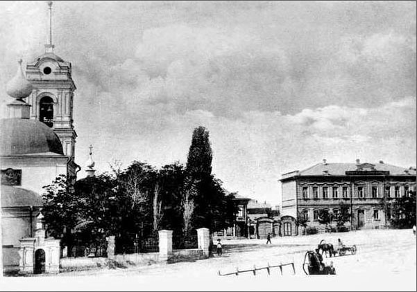 Church of the Assumption in Tsaritsyn and the city council